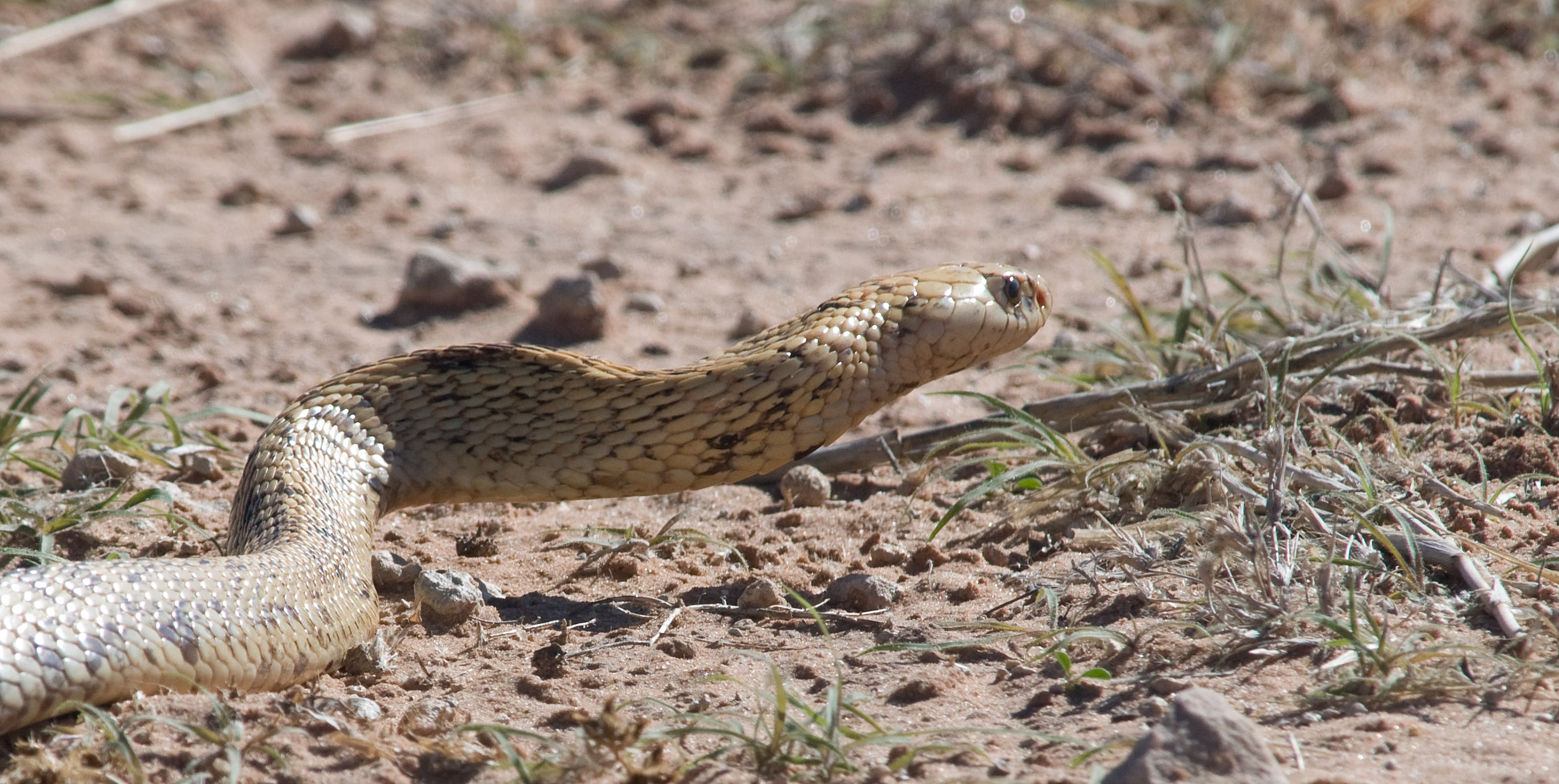 A Cape cobra (Naja Nivea) in South Africa.